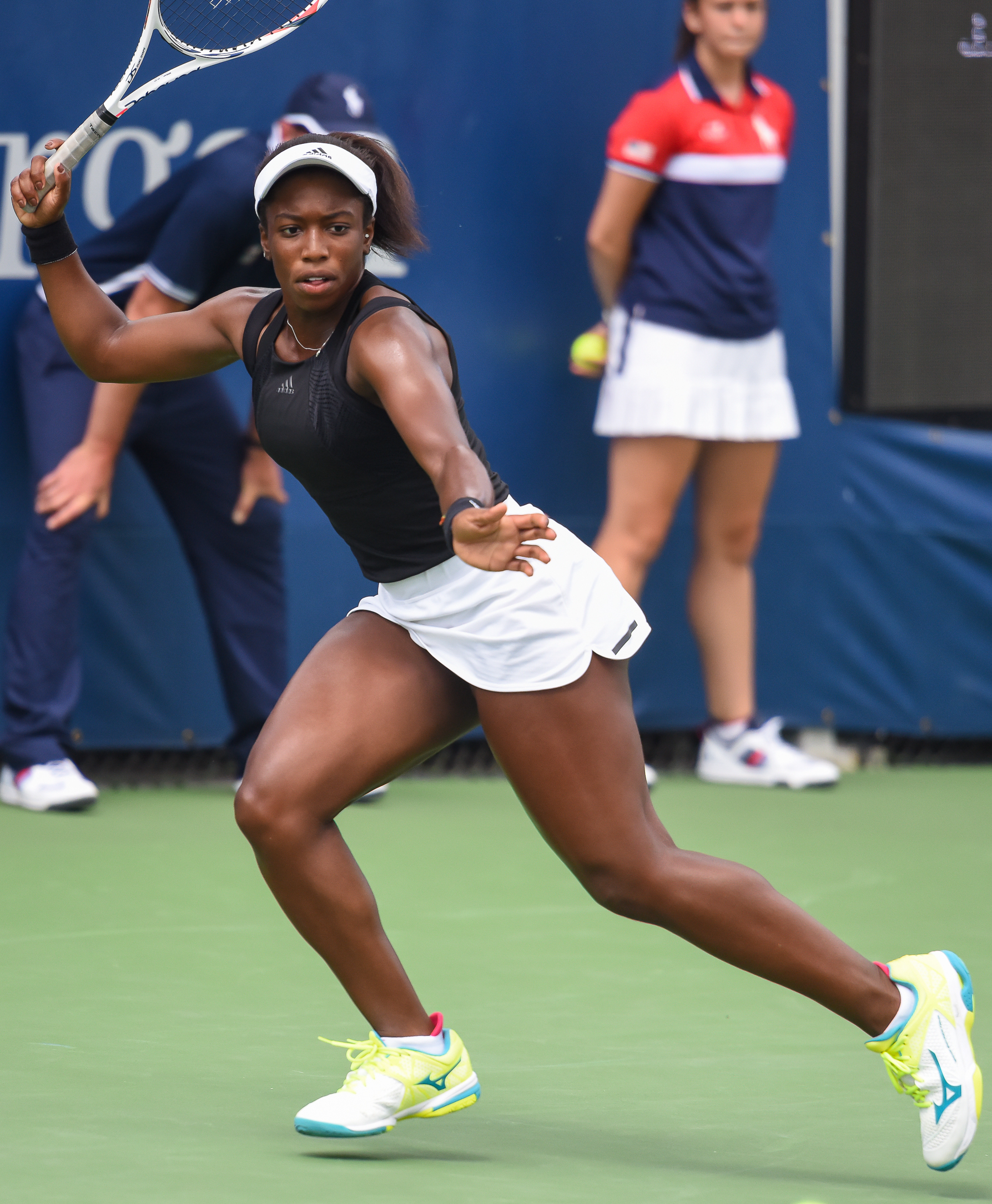 2017 US Open Tennis - Qualifying Rounds - Sachia Vickery (USA) def. Jamie Loeb (USA)